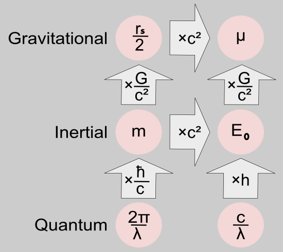 This diagram illustrates five known properties of mass together with the proportionality constants that relate these properties.